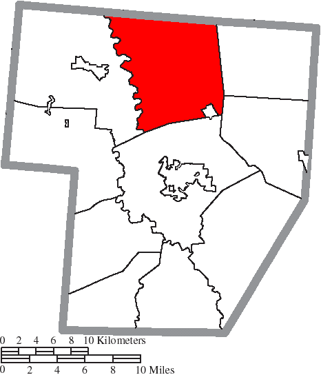 Map of the municipal and township boundaries of Fayette County, Ohio, United States, as of the 2000 census, with the location of Paint Township highlighted. Township borders are shown only in unincorporated areas in order to differentiate incorporated and unincorporated areas more clearly.